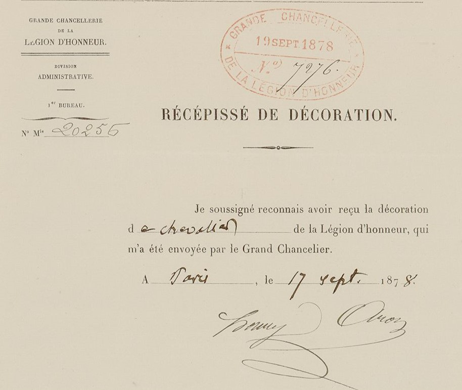 Acknowledgement of receipt of the Legion of Honor, signed by the recipient Henry Aron (1842-1885)